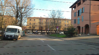 Cadriano, frazione italiana.